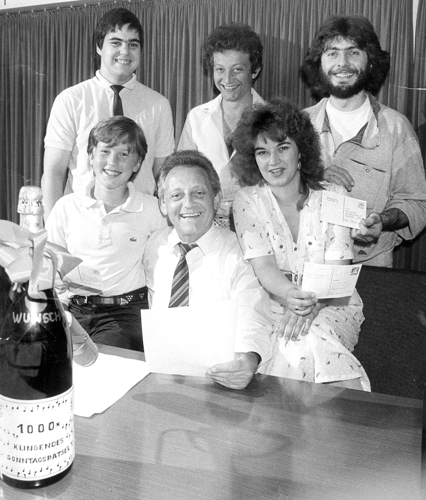 The German radio and television host, producer and entertainer Hans Rosenthal (born 2 April 1925 in Berlin, † February 10, 1987 ibid), with its "Sunday puzzle childs/de: Sonntagskinder". The picture was taken on the occasion of the 1000th radio show "The sounding Sunday puzzle"/de: "Das klingende Sonntagsrätsel" (started in 1965) from Berlin radio station RIAS 1. In the back row, middle: his son Gert Rosenthal.